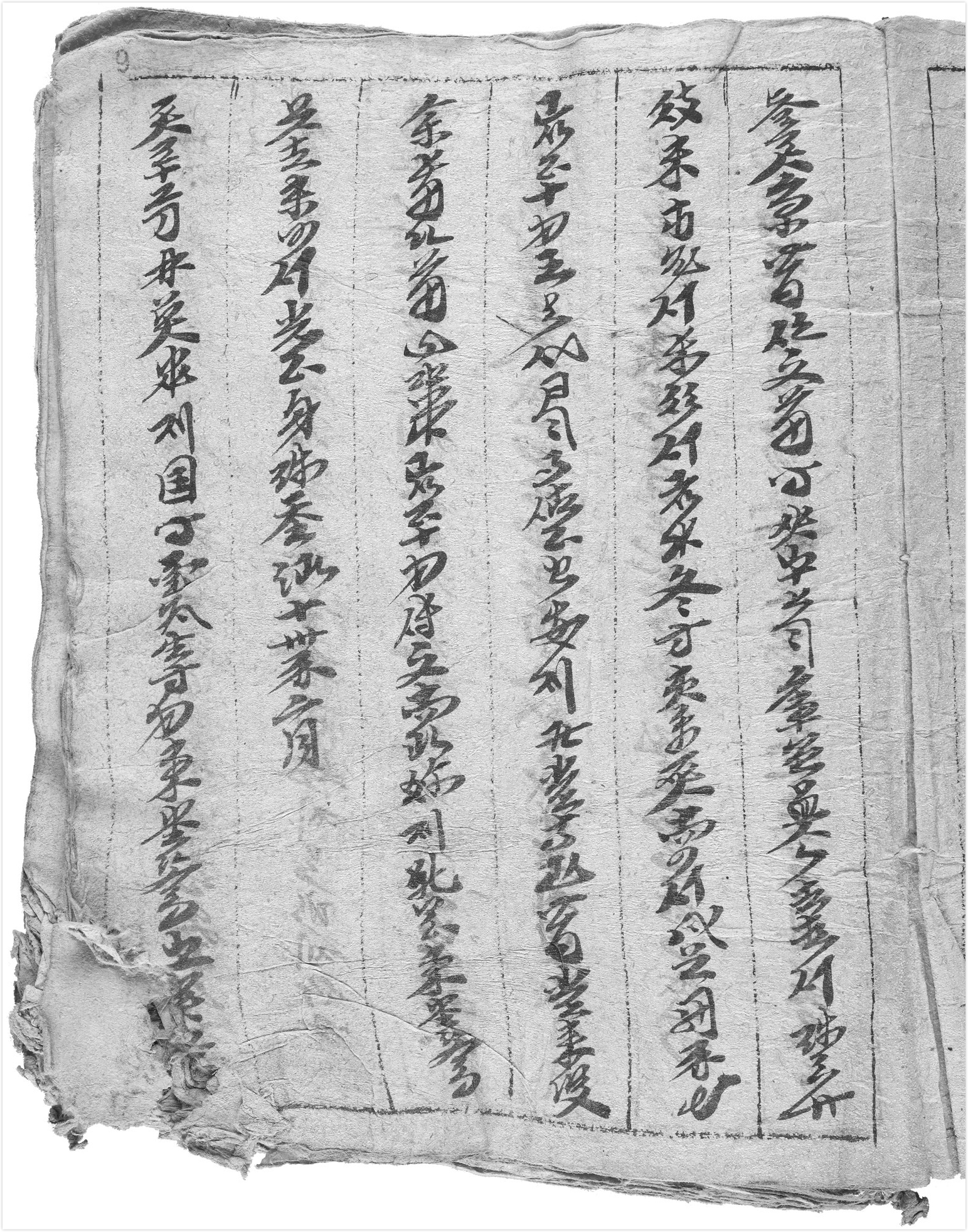 Khitan large script manuscript, Nova N 176 leaf 9. This is a medieval (11th or 12th century) manuscript codex that was found in Kyrgyzstan in the early 1950s, and has been held at the Institute of Oriental Manuscripts (IOM) of the Russian Academy of Sciences in Saint Petersburg, Russia since 1954. The text of the manuscript is in a cursive form of the Khitan large script, and has only been partially deciphered.